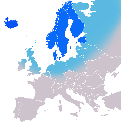 own made image